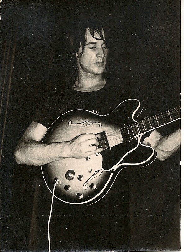 Lally Stott playing his Gibson